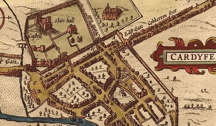 Cropped image of John Speed's map of Cardiff, Wales (1610)